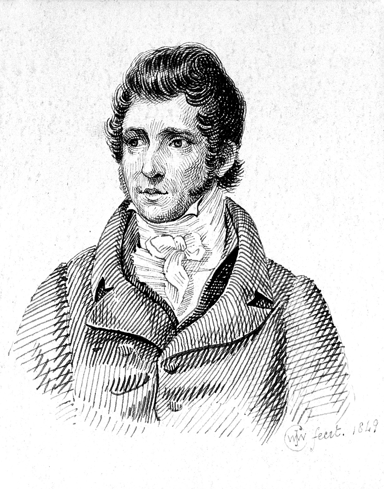 Joseph Arnold, bust portrait Iconographic Collections Keywords: Joseph Arnold; W.J.W.